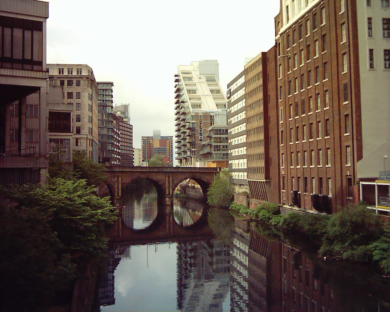 Bridges along the River Irwell, behind Deansgate, Manchester - May 17 2006